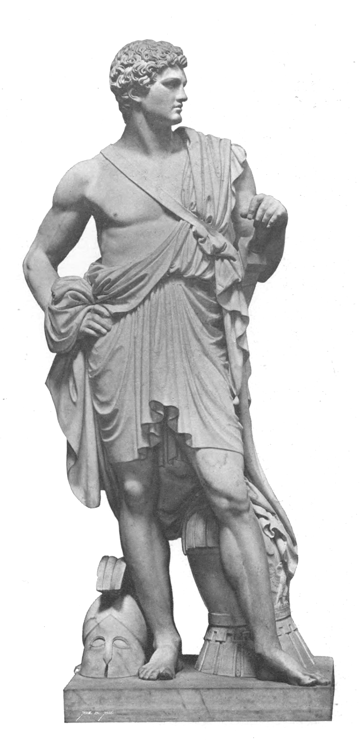 Statue of Włodzimierz Potocki by Bertel Thorvaldsen. Now in Trinity Chapel, Wawel Cathedral, Kraków, Poland.